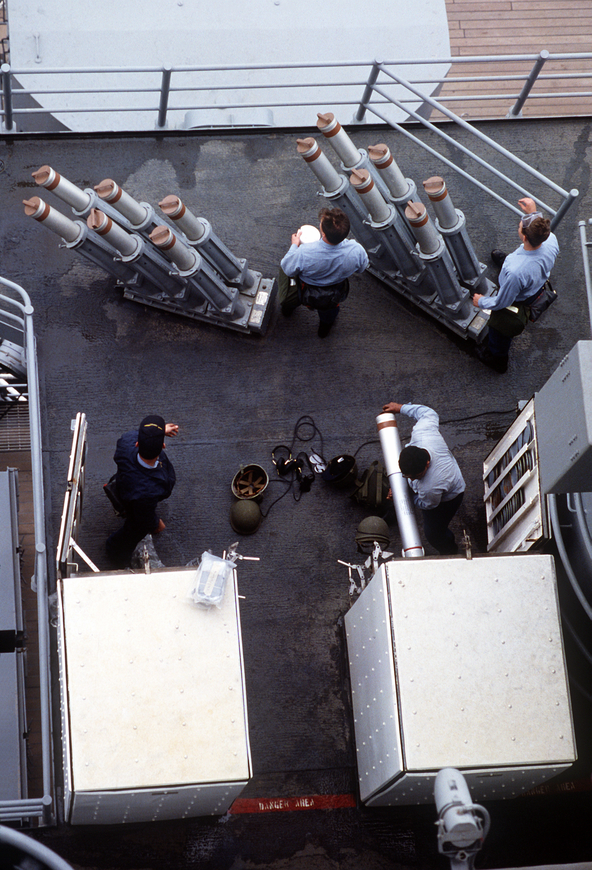 Members of OW Division maintain two of the Mark 36 Mod 7 Super Rapid Bloom Off-board Countermeasures (SRBOC) system chaff launchers aboard the battleship USS WISCONSIN (BB-64) during Operation Desert Storm.